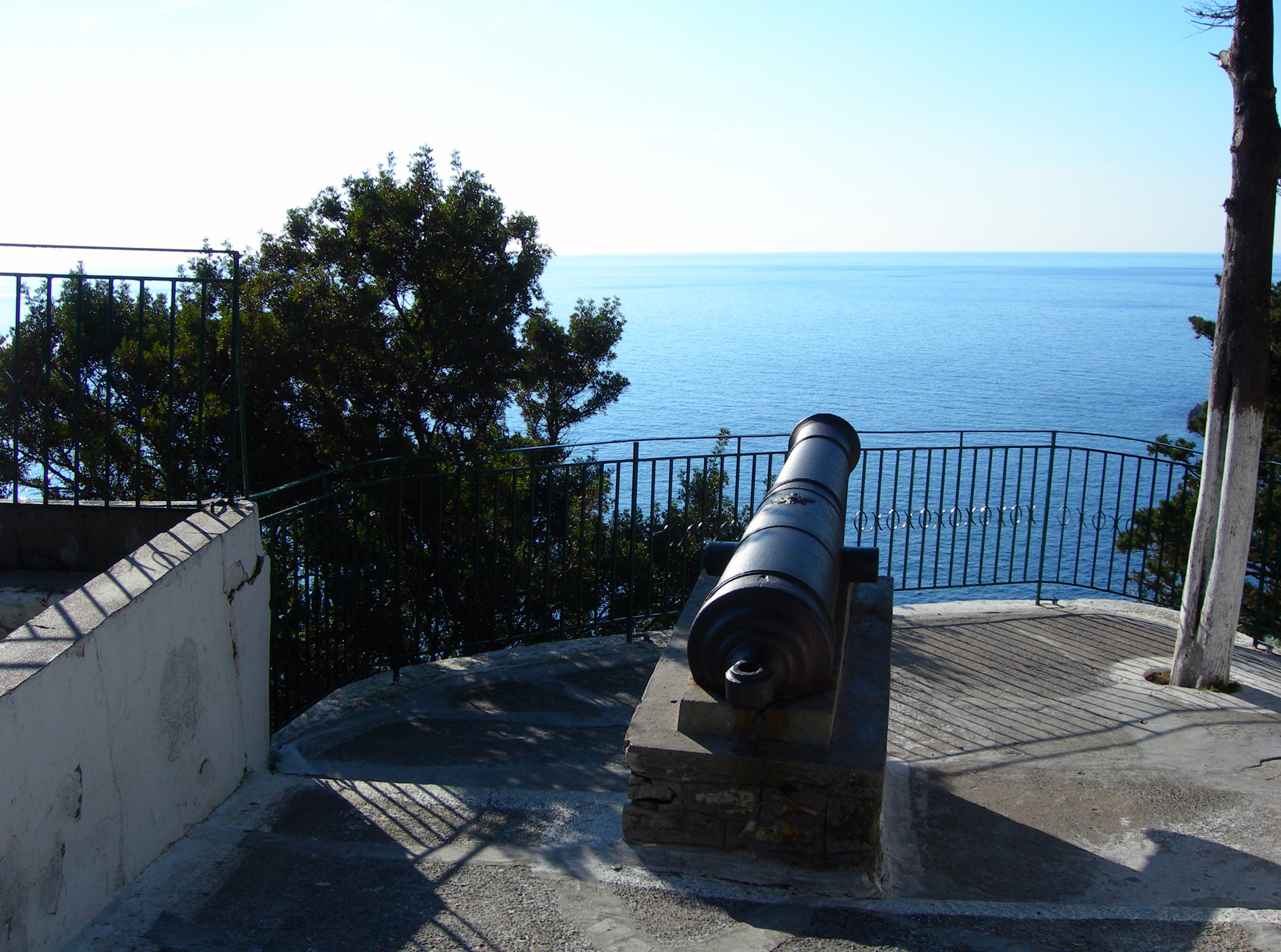 A Russian Gun from the beginning of 19th century in Paleocastritsa Corfu Greece